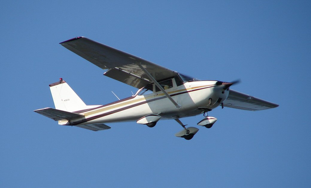 A 172 on final